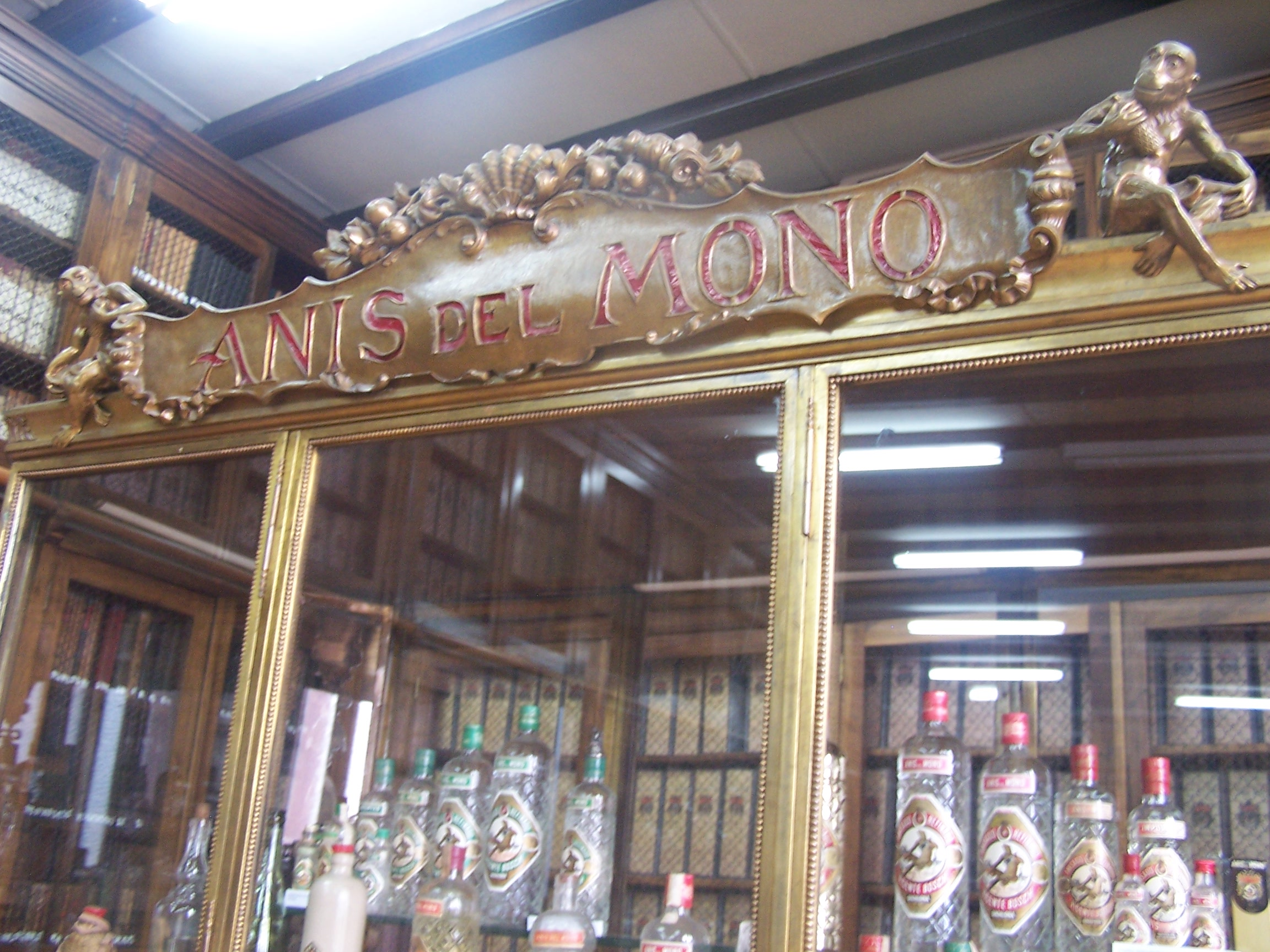 Anis del Mono Factory in Badalona, Catalonia